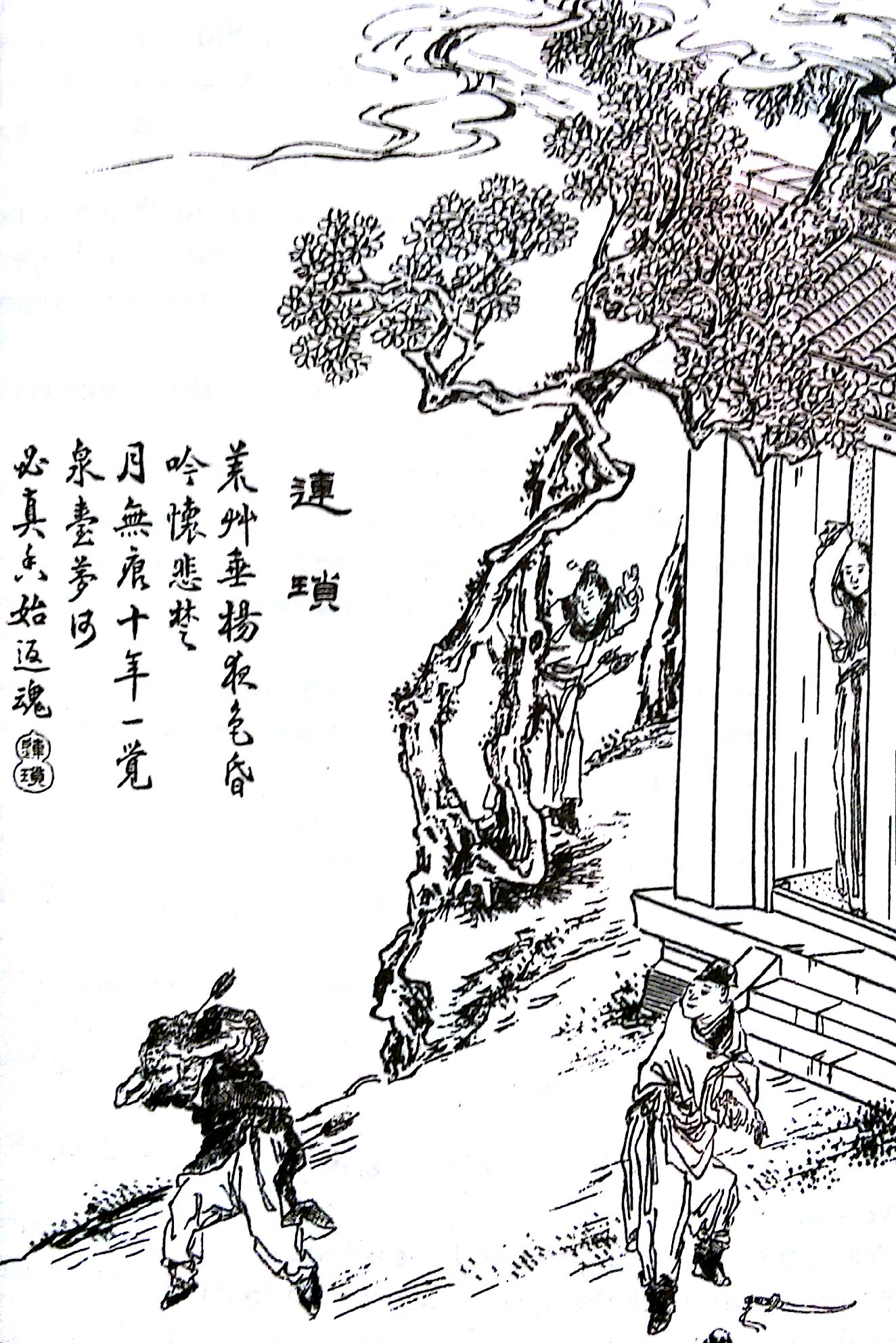 A 19th-century illustration of a scene in the short story "Twenty Years a Dream" from Strange Tales from a Chinese Studio